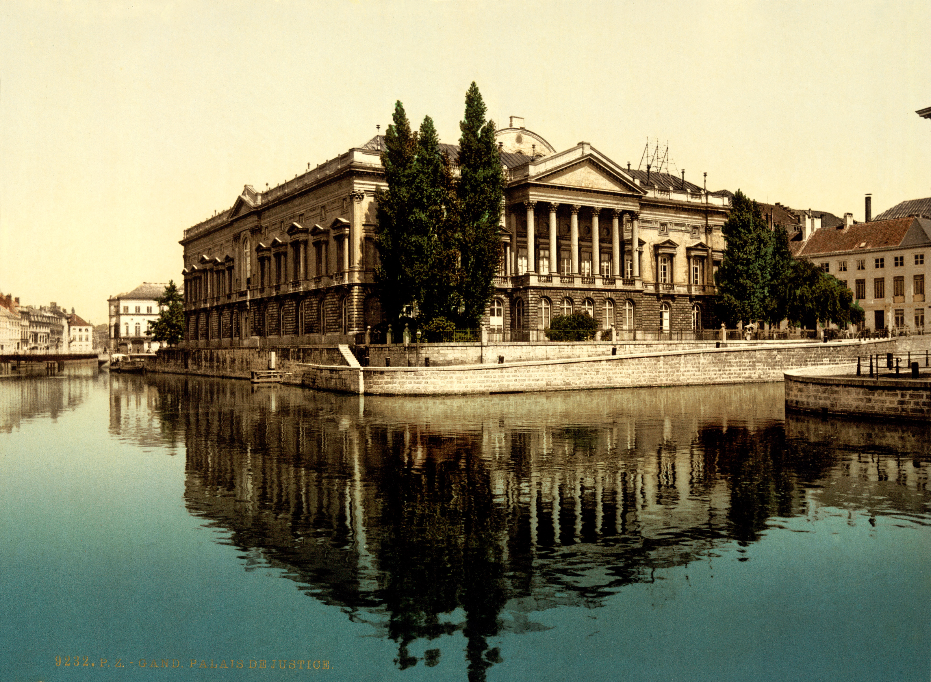 Photochrom print by Photoglob Zürich, between 1890 and 1900. From the Photochrom Prints Collection at the Library of Congress More photochroms from Belgium | More photochrom prints [PD] This picture is in the public domain